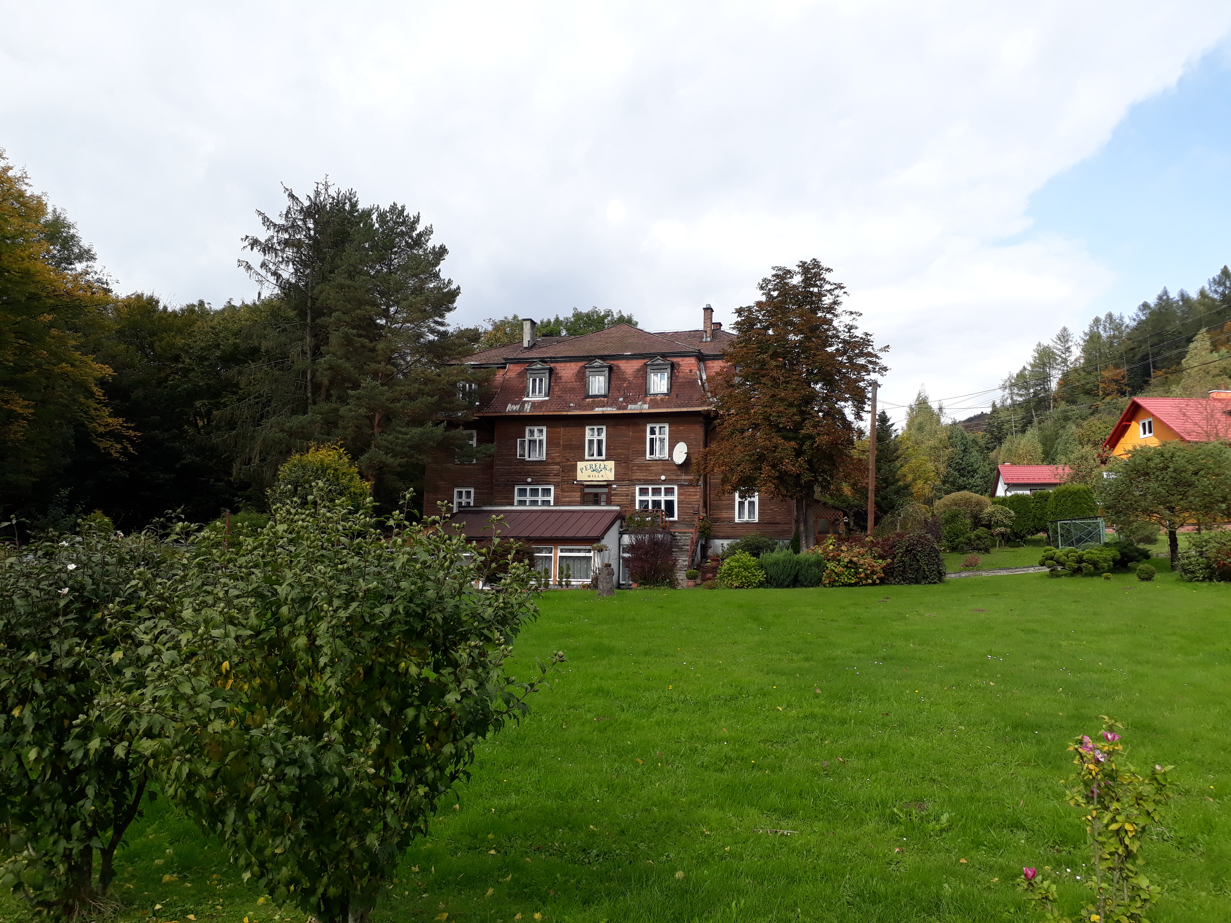 Pensjonat Perełka w Szymbarku